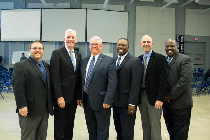 L-R: Assistant Director of Athletic Bands Eric W. Bush, Director of Concert Bands Dennis Glocke, Director of Athletic Bands Emeritus O. Richard Bundy, Assistant Directors of Athletic Bands Carter Biggers and Darrin Thornton